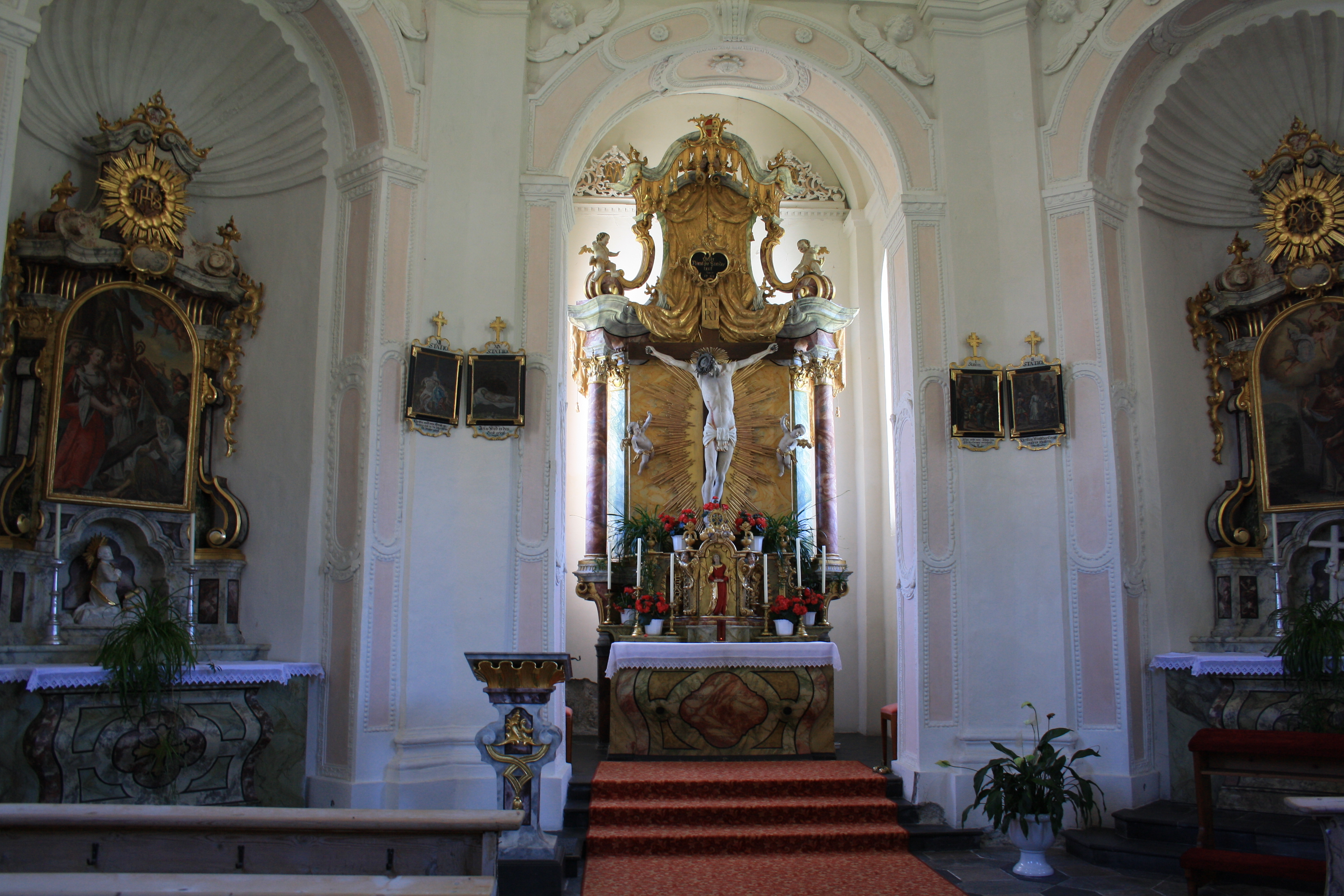 Austria, Tyrol (state), Seefeld in Tirol, Seekirchl Heilig Kreuz.